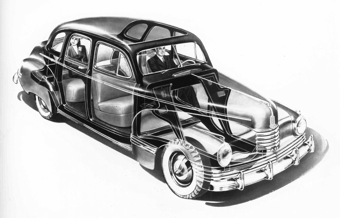 1942 Nash Ambassador 600 X-ray drawing -- scan of Nash Motors public relations materials. This image is part of the Press Release package for the new car's construction design. This image was released by the company (for the introductuction of its new line of 1942 model year automobiles) to be distributed for "free" by the media to the public.